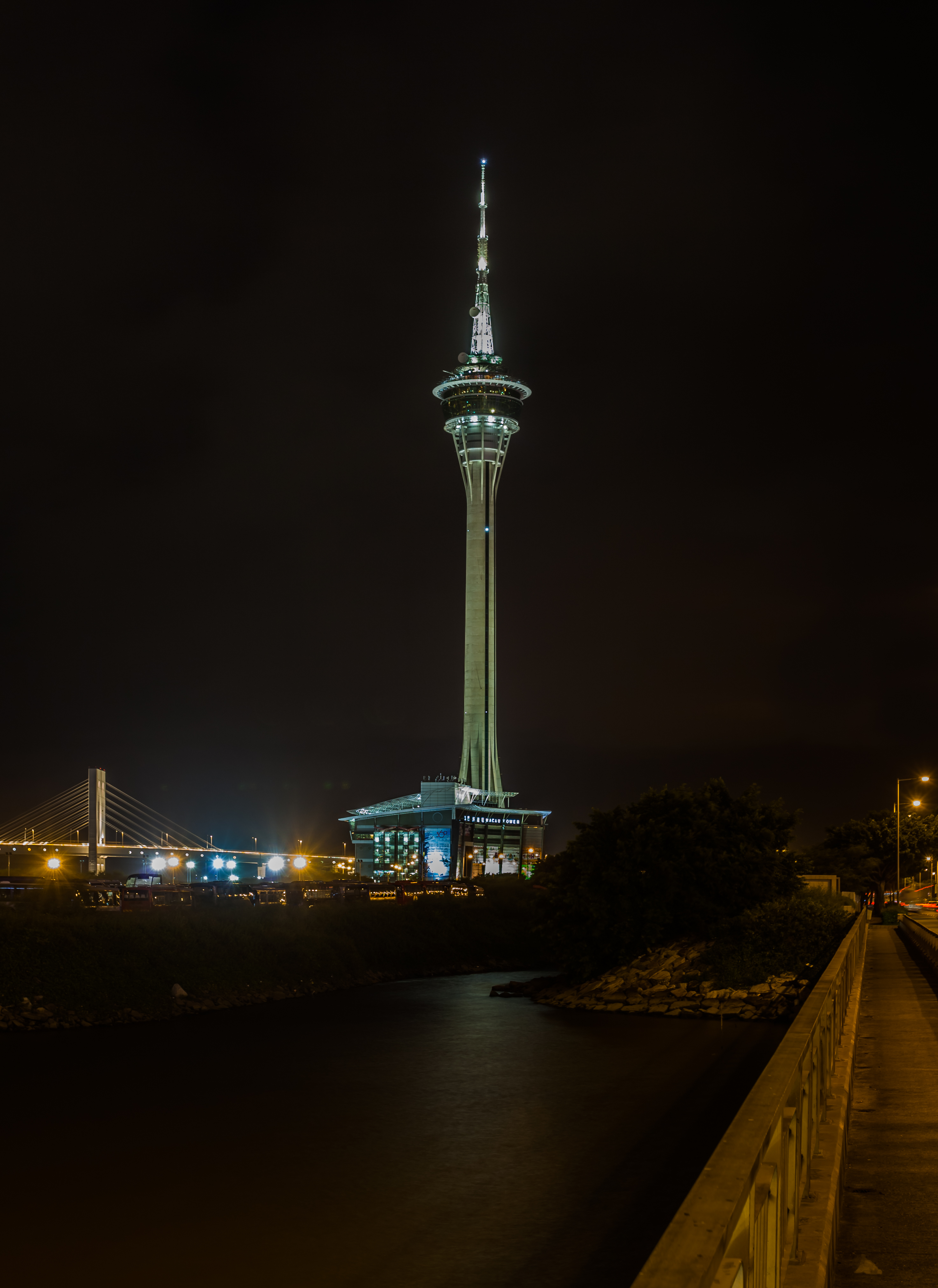 Macau Tower